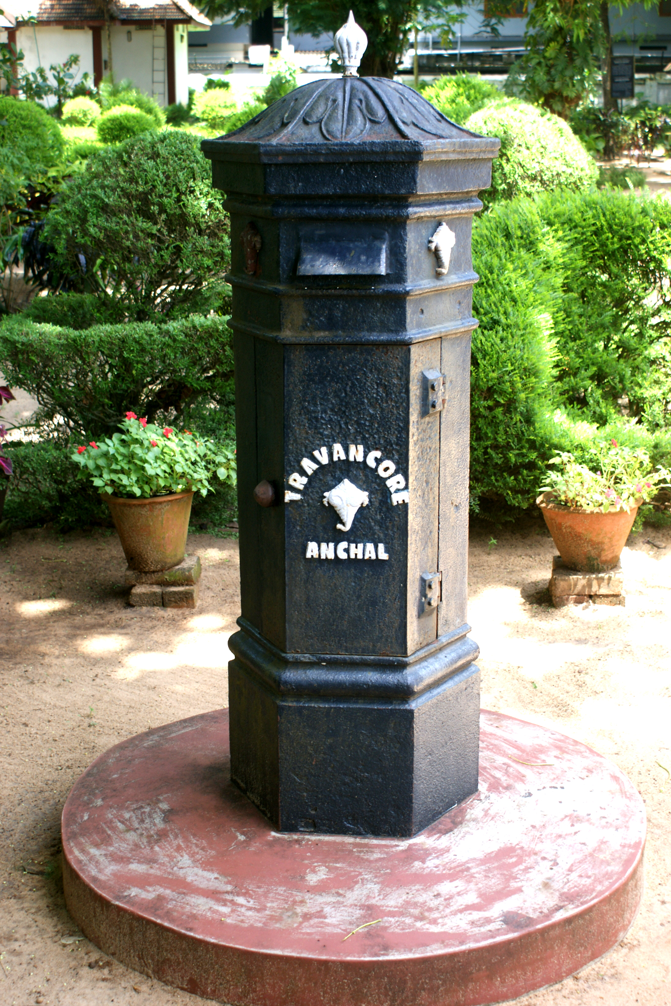 Post box of the former Travancore Anchal in Kerala, India.